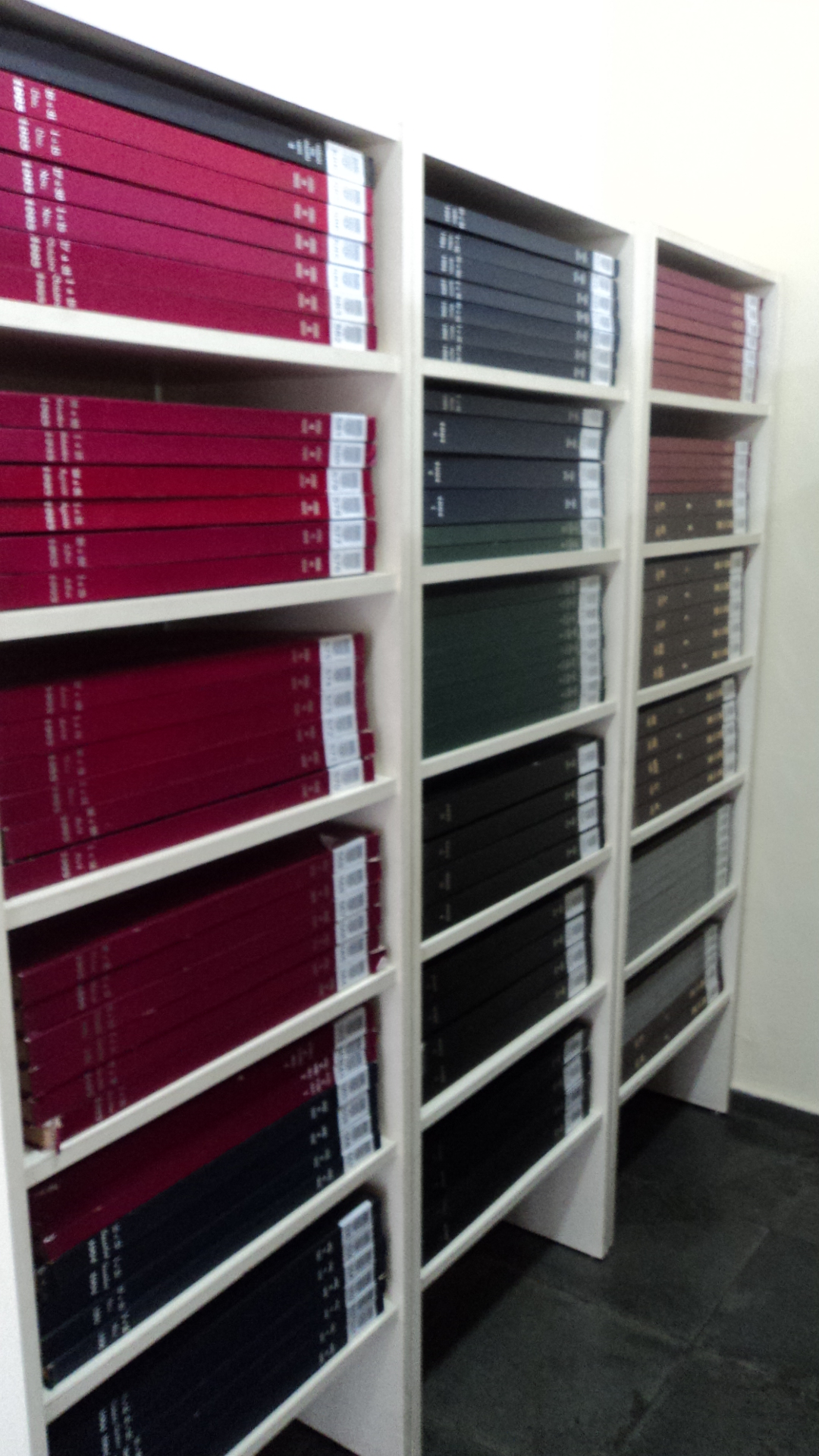 Bauru Historical Museum Collection